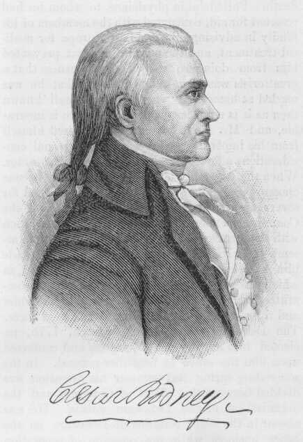 Caesar Rodney of Delaware (1728-1784)